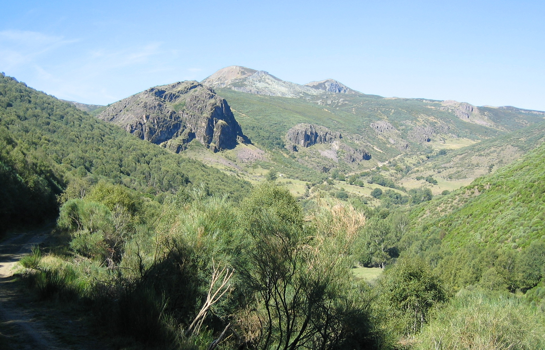 Mount Tambaron (Leon, Spain)